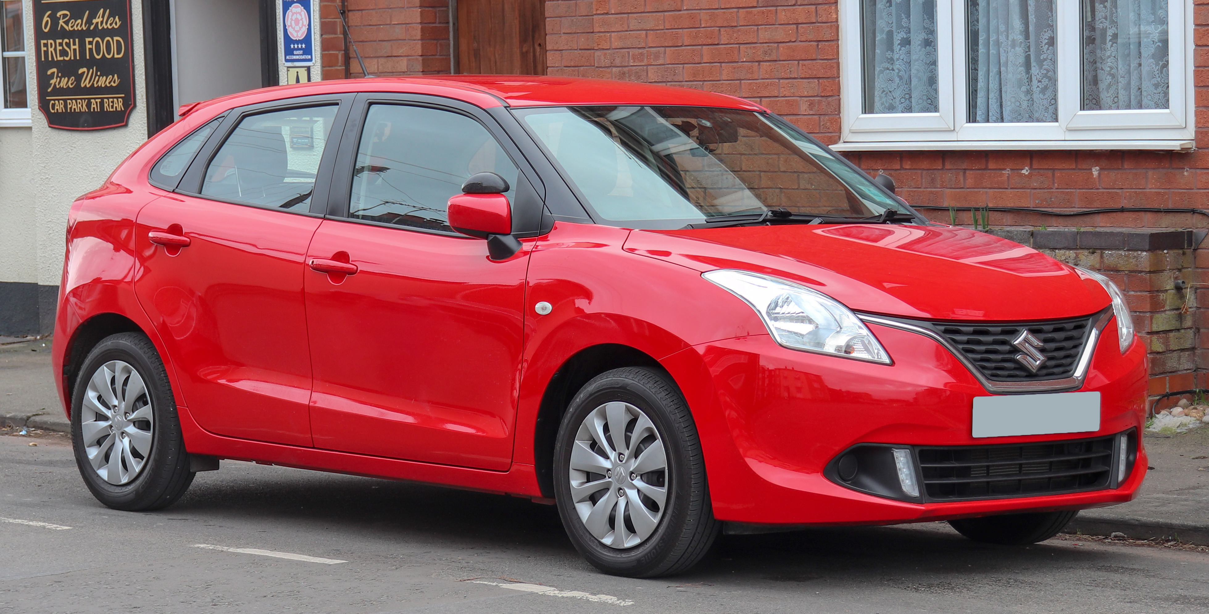 2017 Suzuki Baleno SZ3 Dualjet 1.2 Front Taken in Warwick